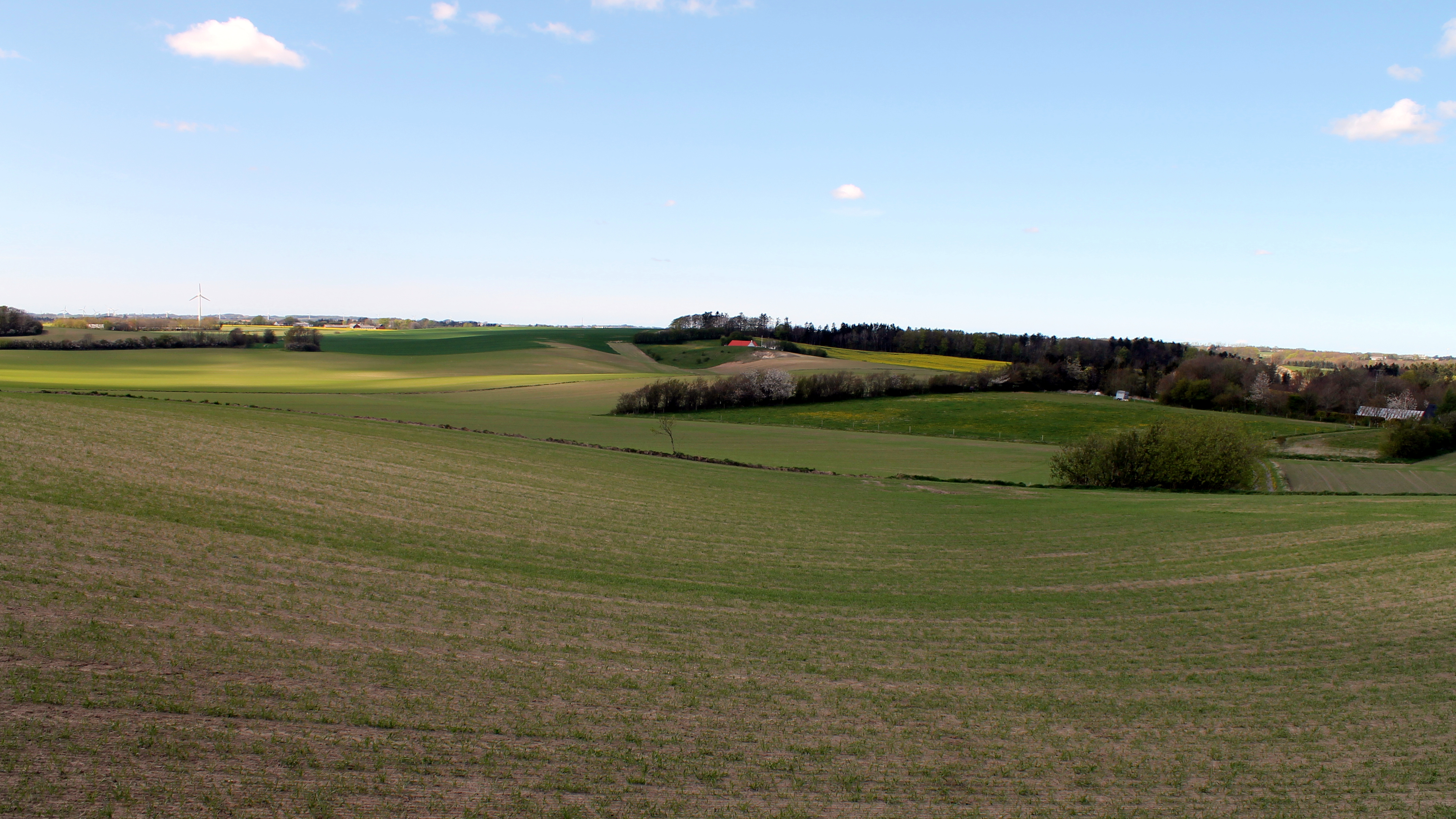 A field in Denmark